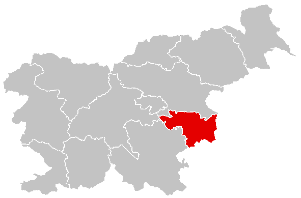 map representing the Spodnjeposavska statistical region of Slovenia modified from File:Slovenian-regions-obalnokraska.png